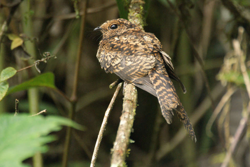 Swallow-tailed Nightjar (Uropsalis segmentata) in Ecuador. Adult female or young male.